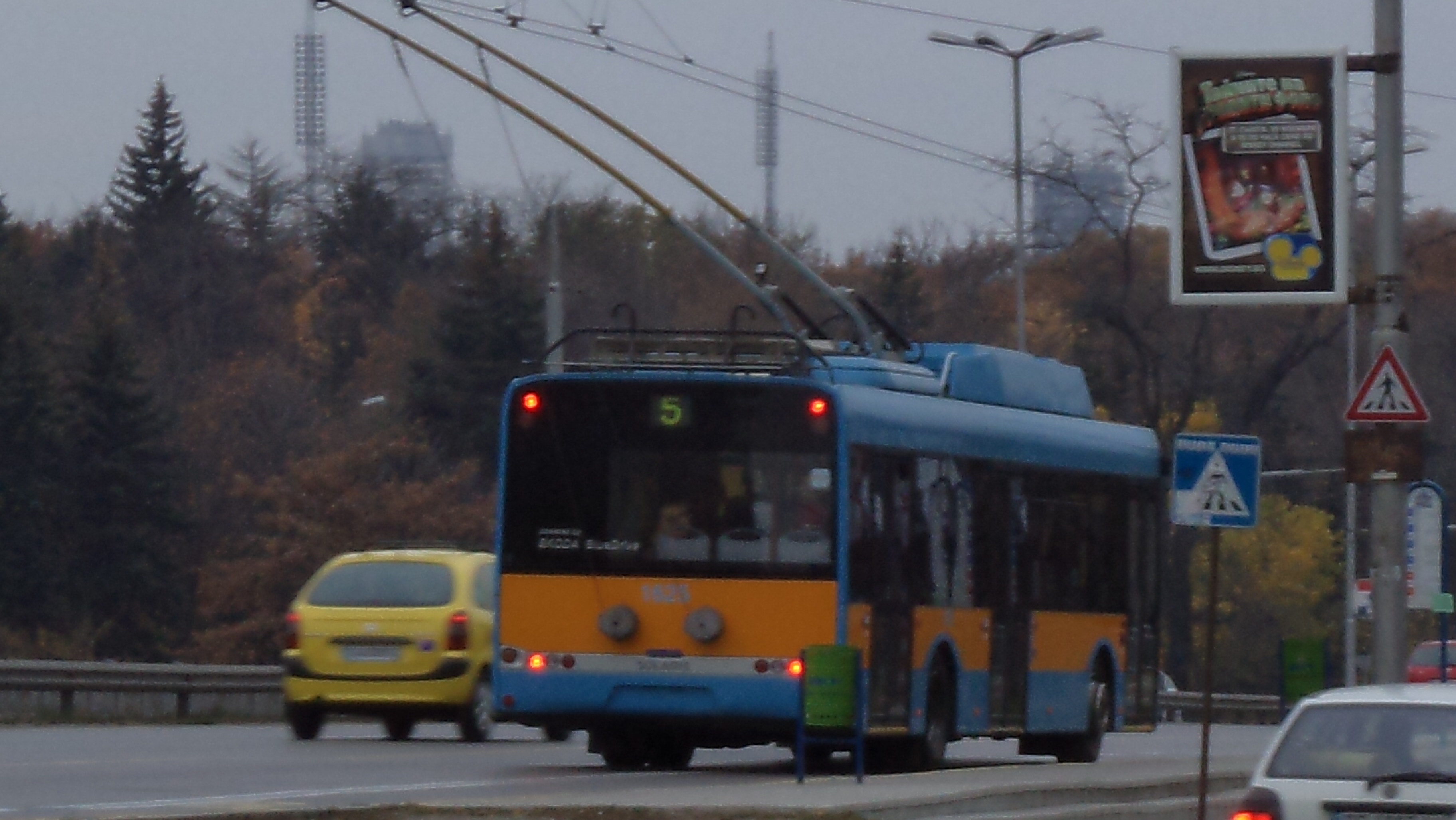 Skoda Solaris 26Tr in Sofia